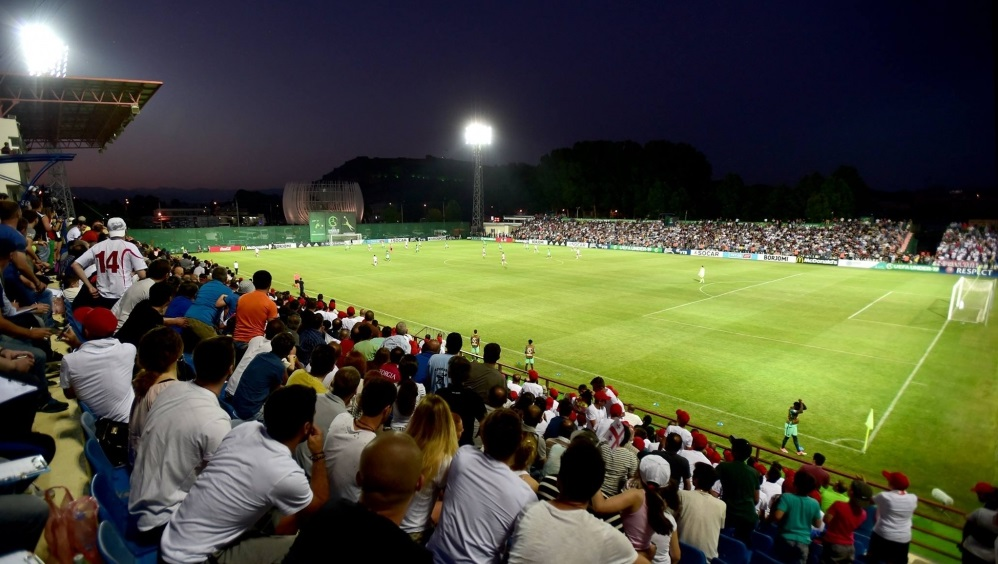 Georgia U19 vs Portugal U19 (Uefa U19 Championship 2017)